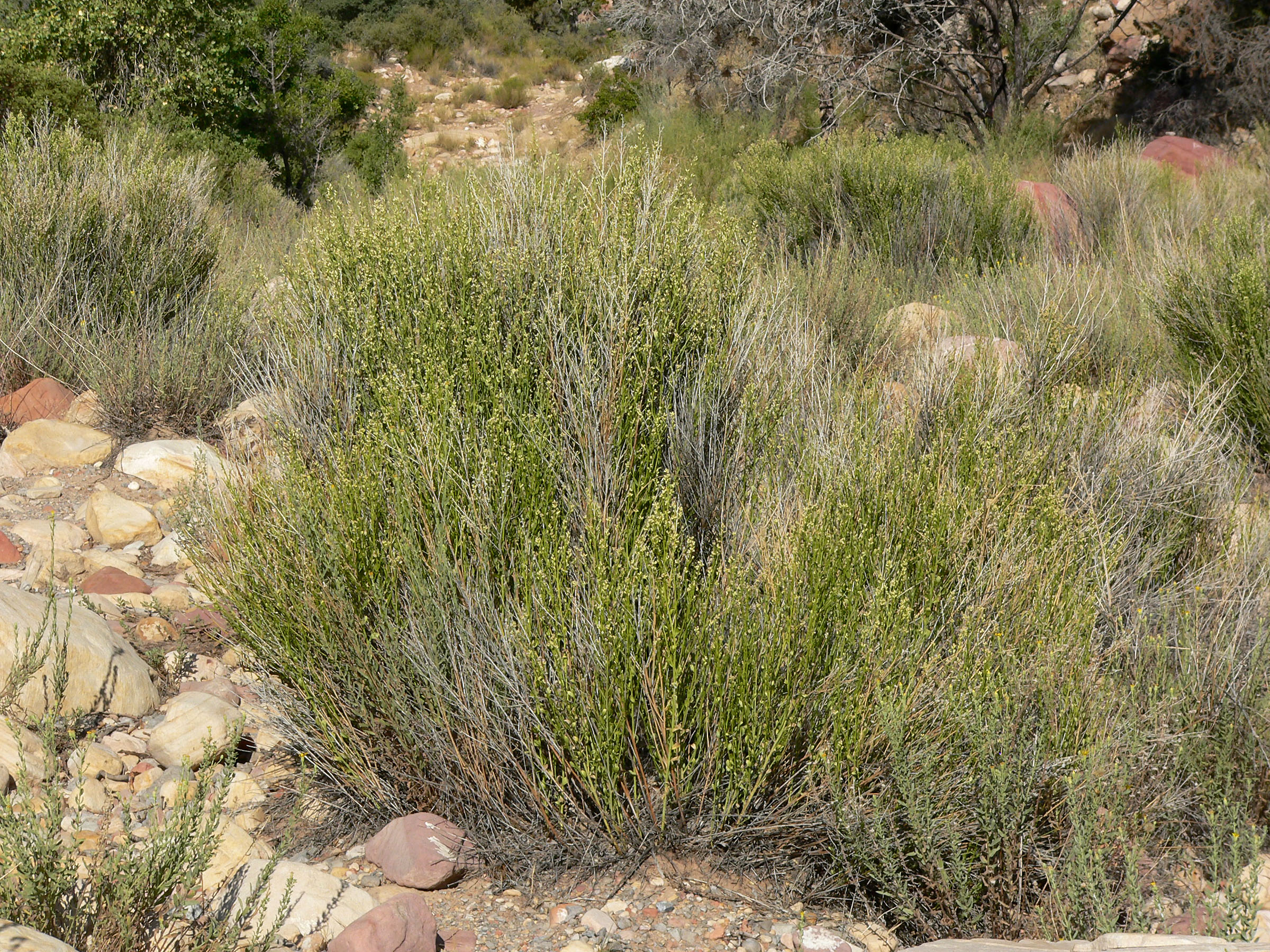 Baccharis sergiloides in Pine Creek Canyon near the old homestead, Red Rock Canyon, Spring Mountains, southern Nevada (elev. about 1200 m)